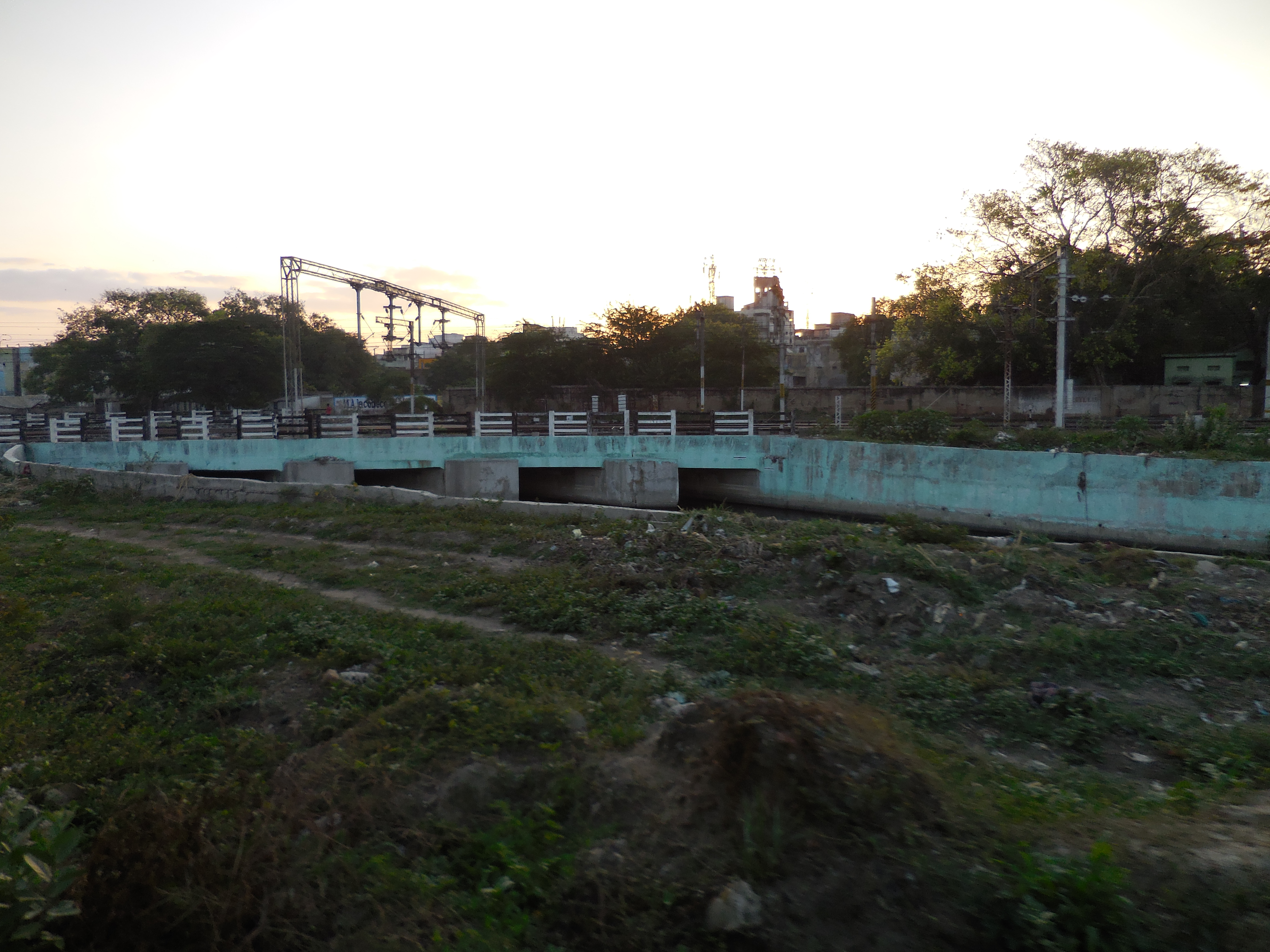 Buckingham Canal Bridge at Chennai Central, taken on 5 July 2014, at 6:00 am